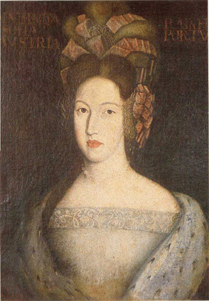 Portrait of Maria Sofia of the Palatinate (1666-1699)